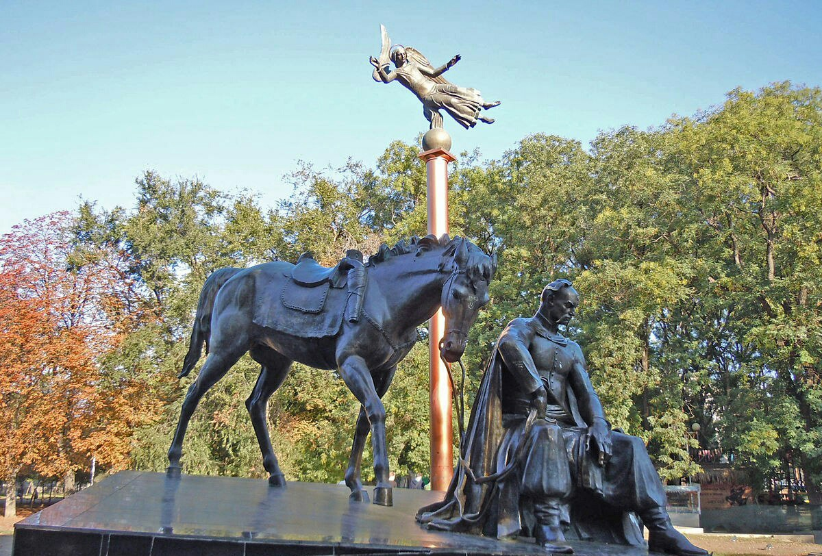 Памятник атаману Головатому в Старобазарном сквере, Одесса